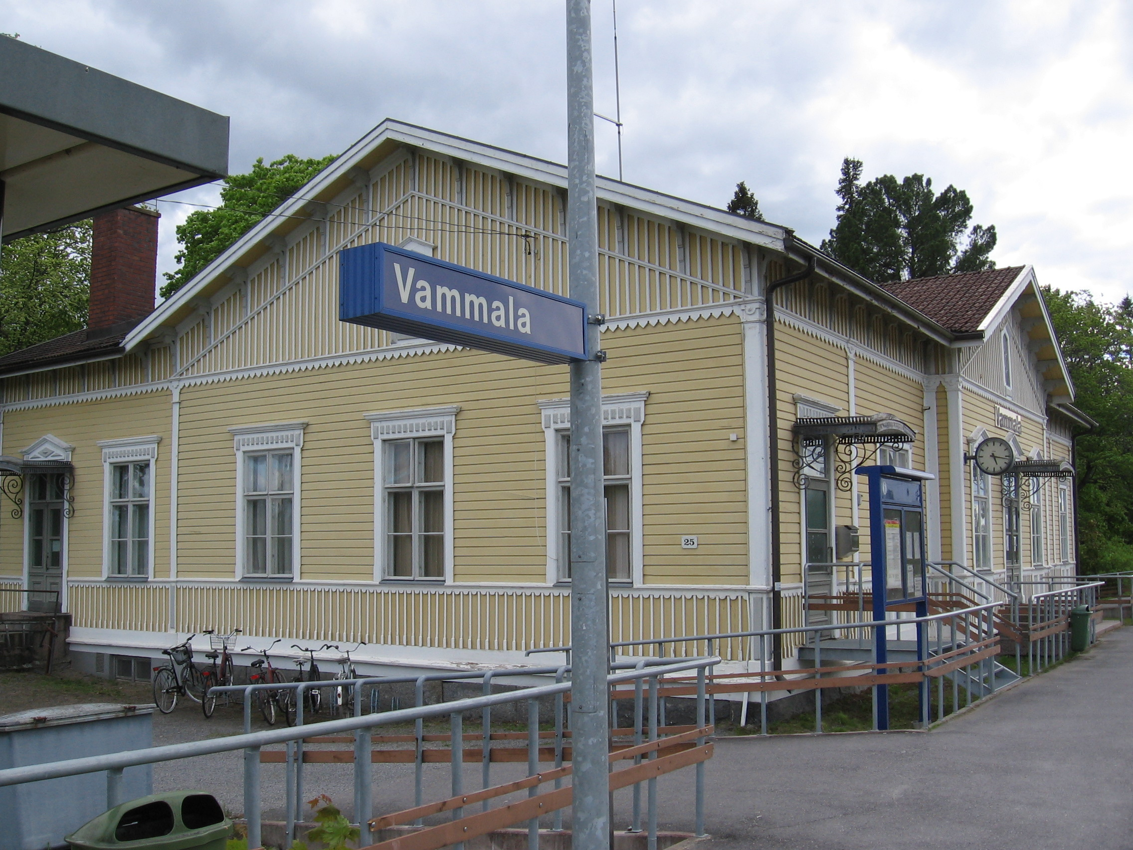 Vammala railway station on Tampere–Pori railway line in Vammala, Sastamala, Finland.